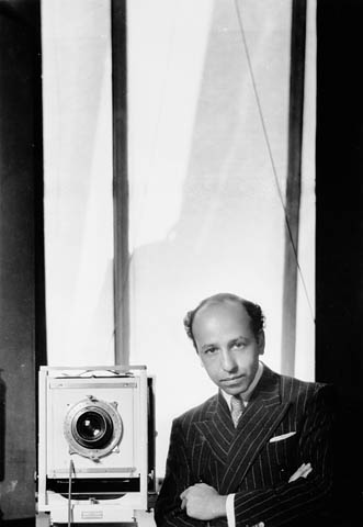 Yousuf Karsh - Self Portret